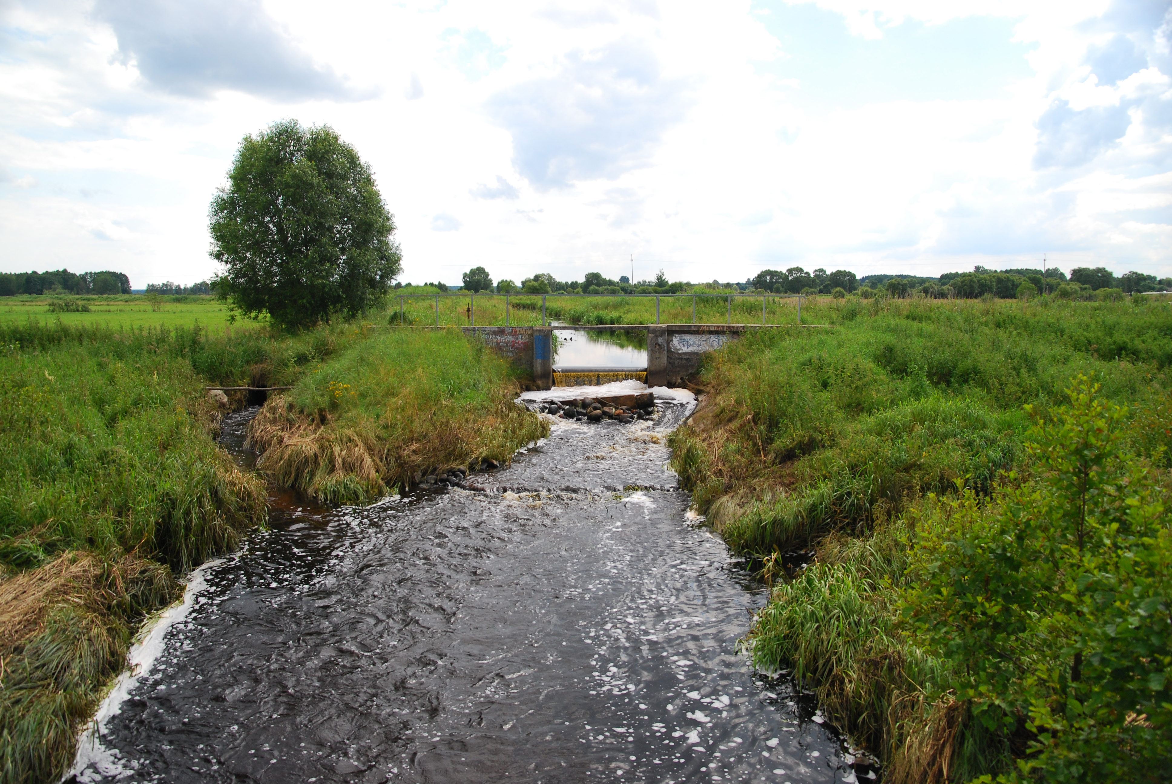 This photo from Podlaskie Voievodeship was taken during Polish Wikiexpedition 2009 set up by Wikimedia Polska Association. The making of this document was supported by Wikimedia Polska. Rzeka Nurczyk we wsi Grabarka